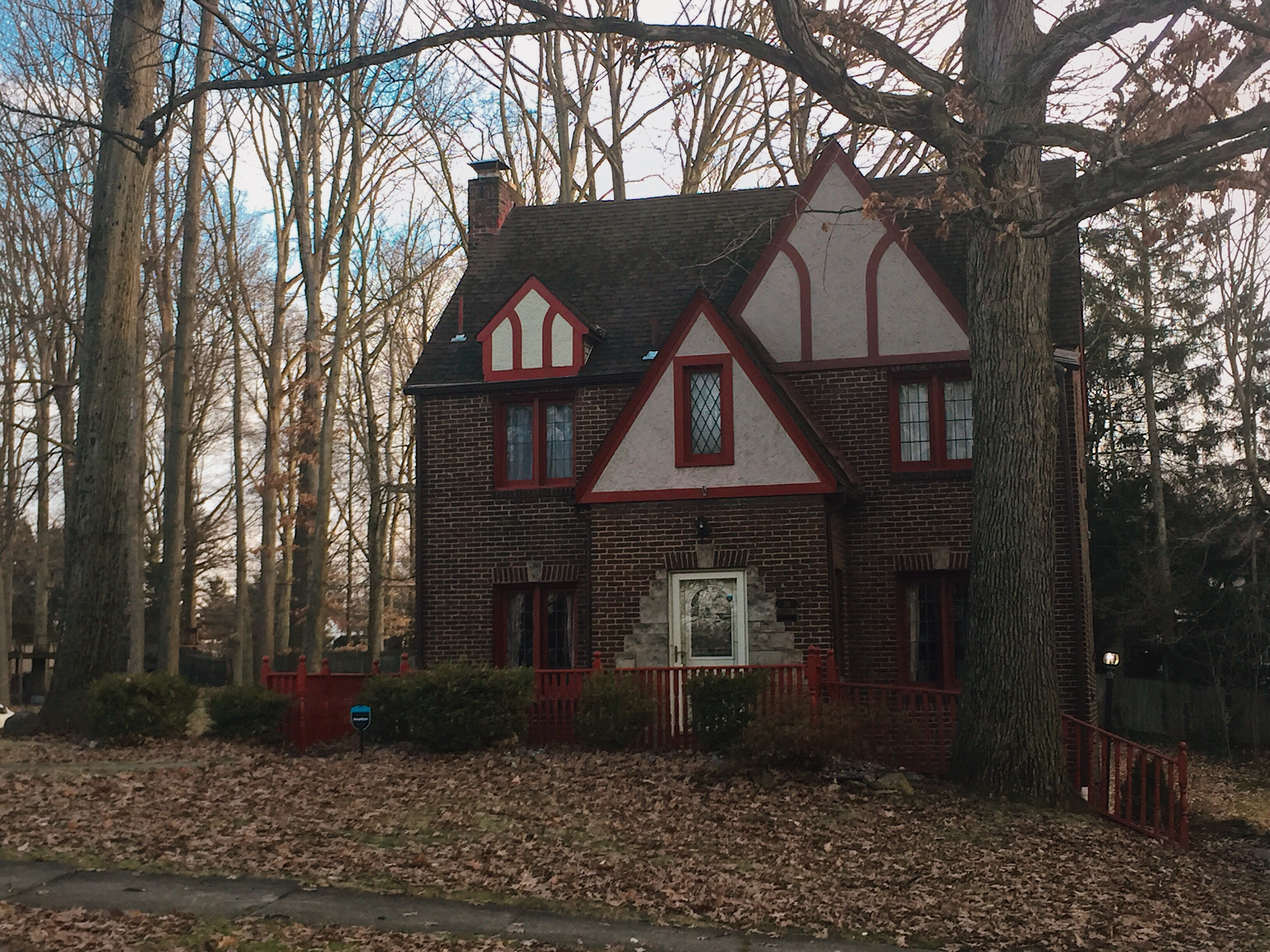 This photo is of a tudor revival style home in Newport Village Historic District in Boardman, Ohio.